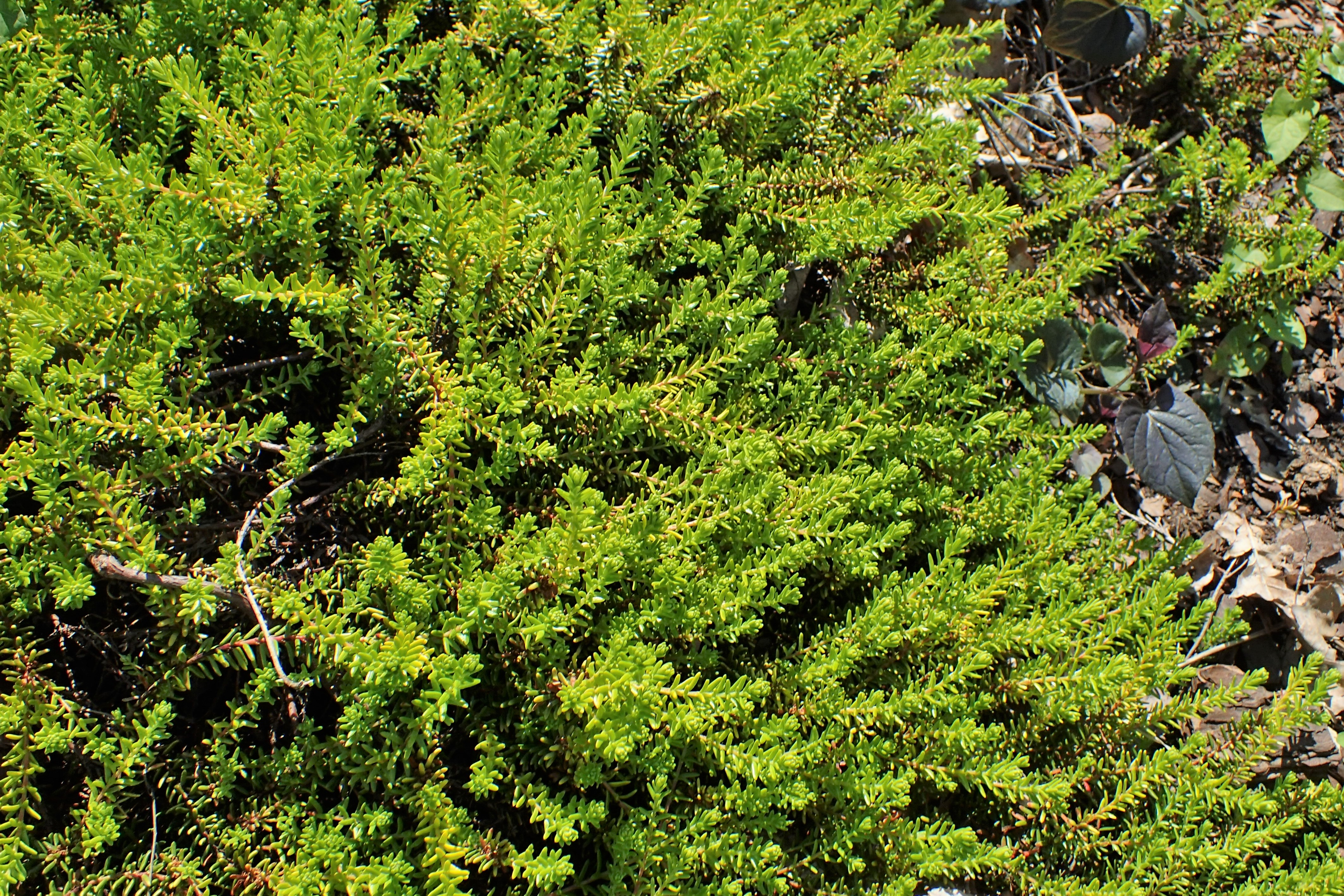 Empetrum nigrum 'Zitronella' in arboretum in Wojsławice, SW Poland